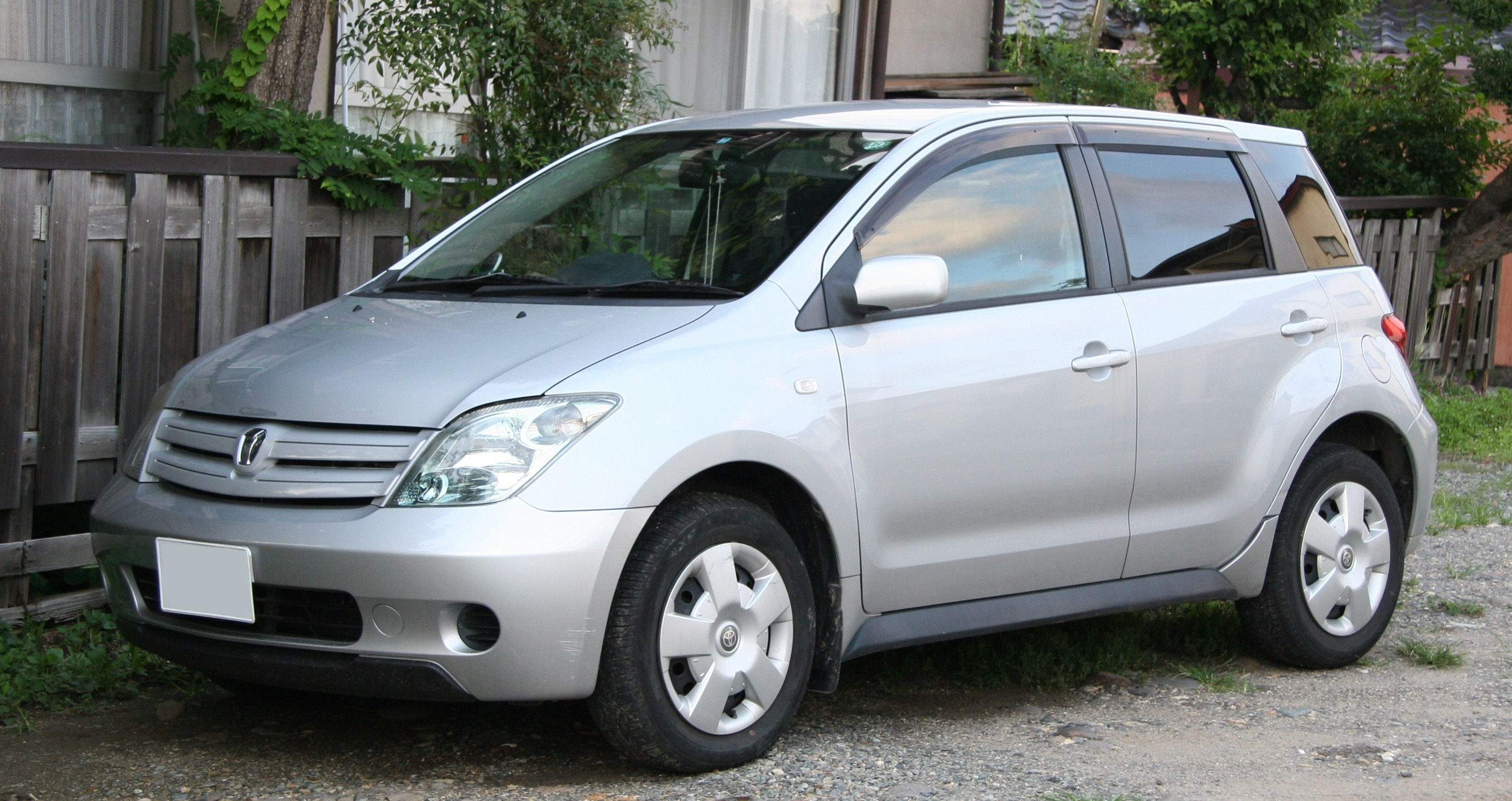 Toyota Ist